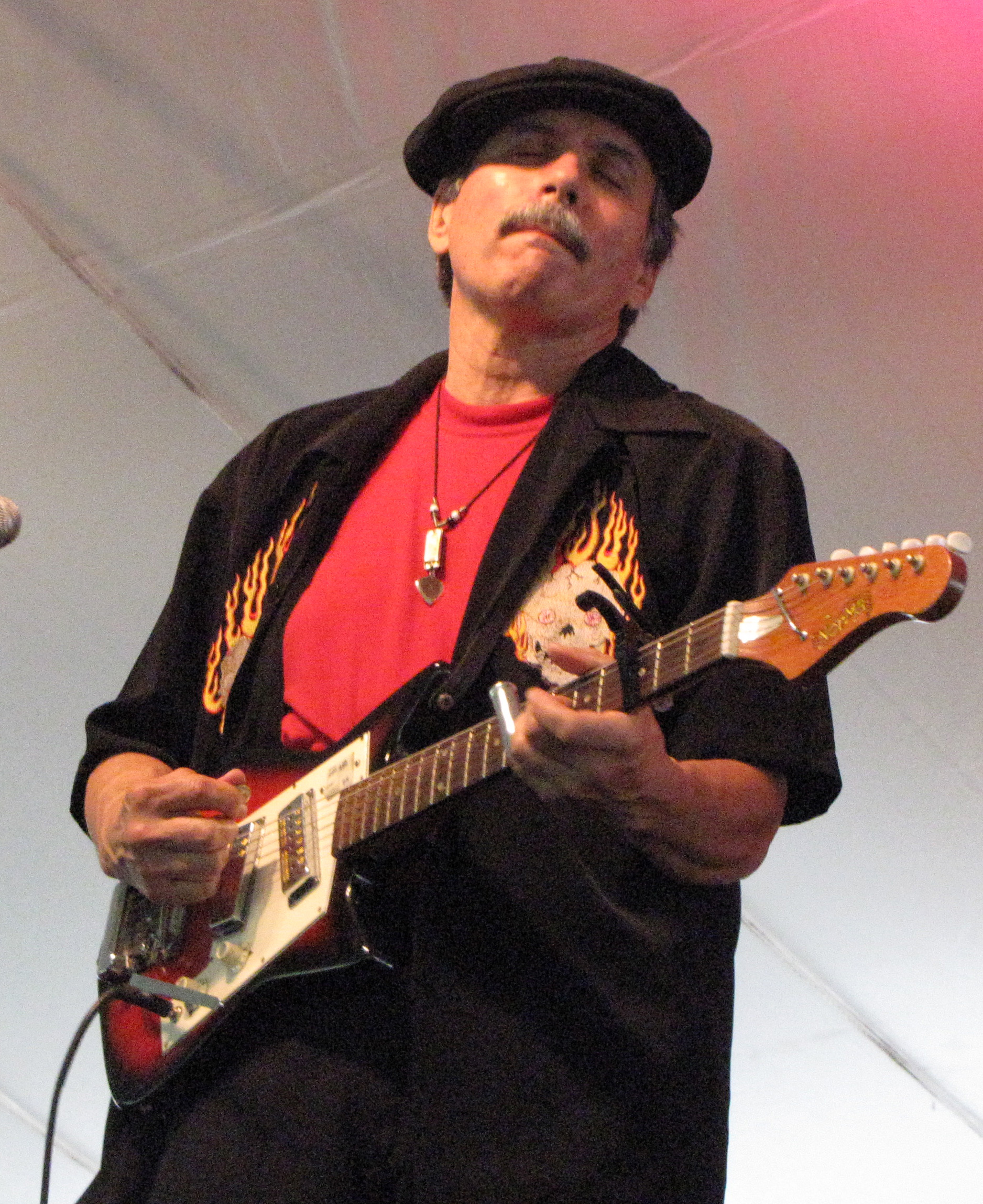 Studebaker John performing at the Kitchener Blues Festival Studebaker John seems using Norma guitar[1]